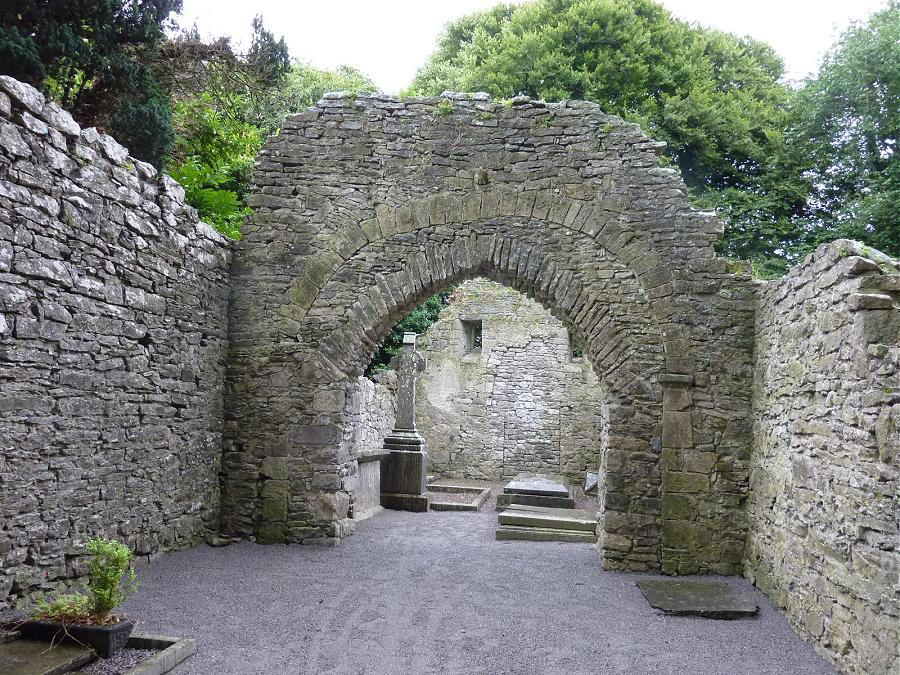 Ruins of Killree church (Irlande, Kells, Co. Kilkenny)